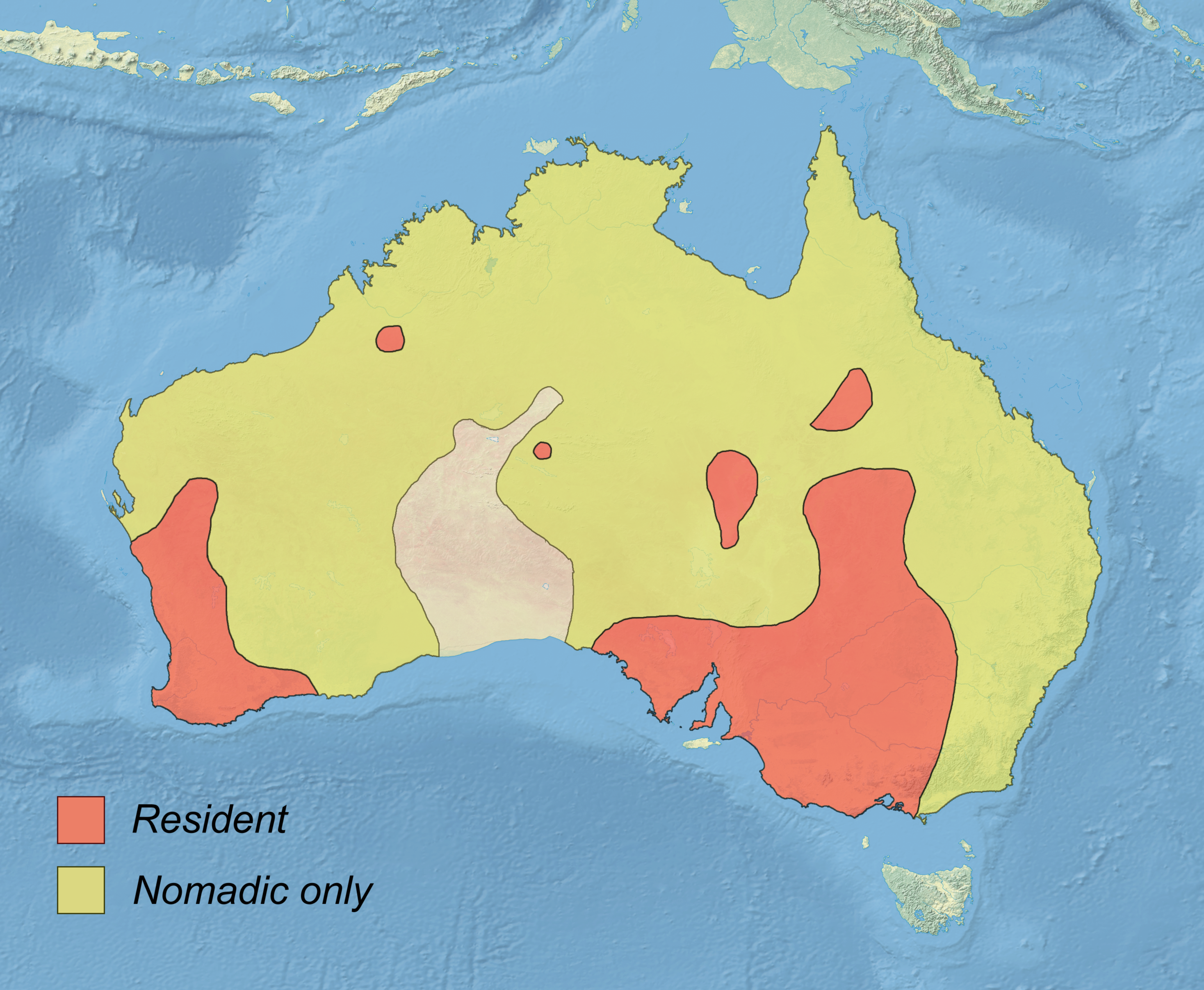 Distribution map of Malacorhynchus membranaceus (Pink-eared Duck). Resident population in red and nomadic only in yellow. Distribution data from BirdLife International 2009. Malacorhynchus membranaceus. In: IUCN 2011. IUCN Red List of Threatened Species. Version 2011.2. . Downloaded on 12 February 2012. Map from Natural Earth